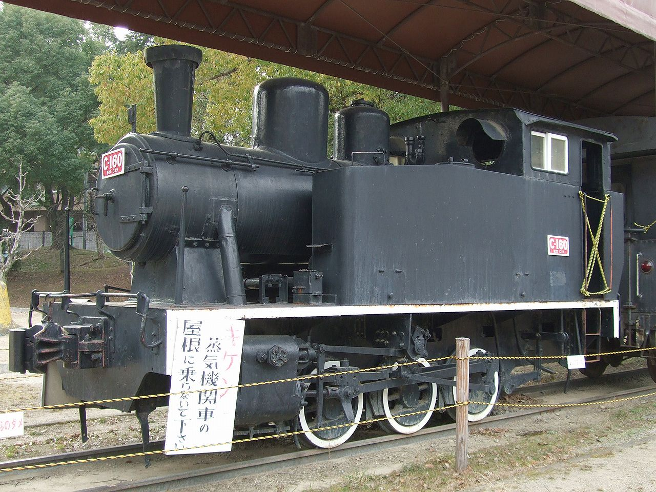 Company:Kaya Railway / Type:C15 / Number:C-160 / Year:1942 / Builder:Motoe Kikai Seisakujo / Location:Omiya Transportation Park, Kita Ward, Kyoto City, Kyoto, Japan.